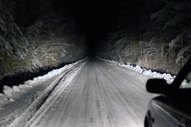 A Toyota Corolla in Finland 2005, full beam produced by H4 halogen bulbs and two H3-bulb Hella Comet extra lights. Same situation with dipped beams and full beam.